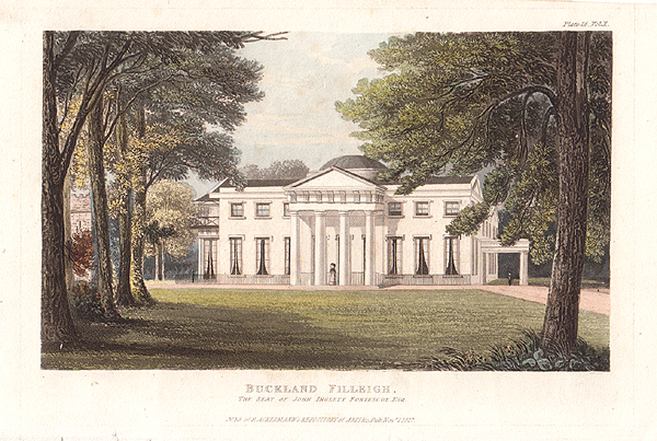 Buckland House, Buckland Filleigh, Devon. East front, the parish church of St Mary is visible on the left. "Buckland Filleigh the seat of John Inglett Fortescue Esq." Engraving published by R. Ackermann's "Repository of Arts", 1828